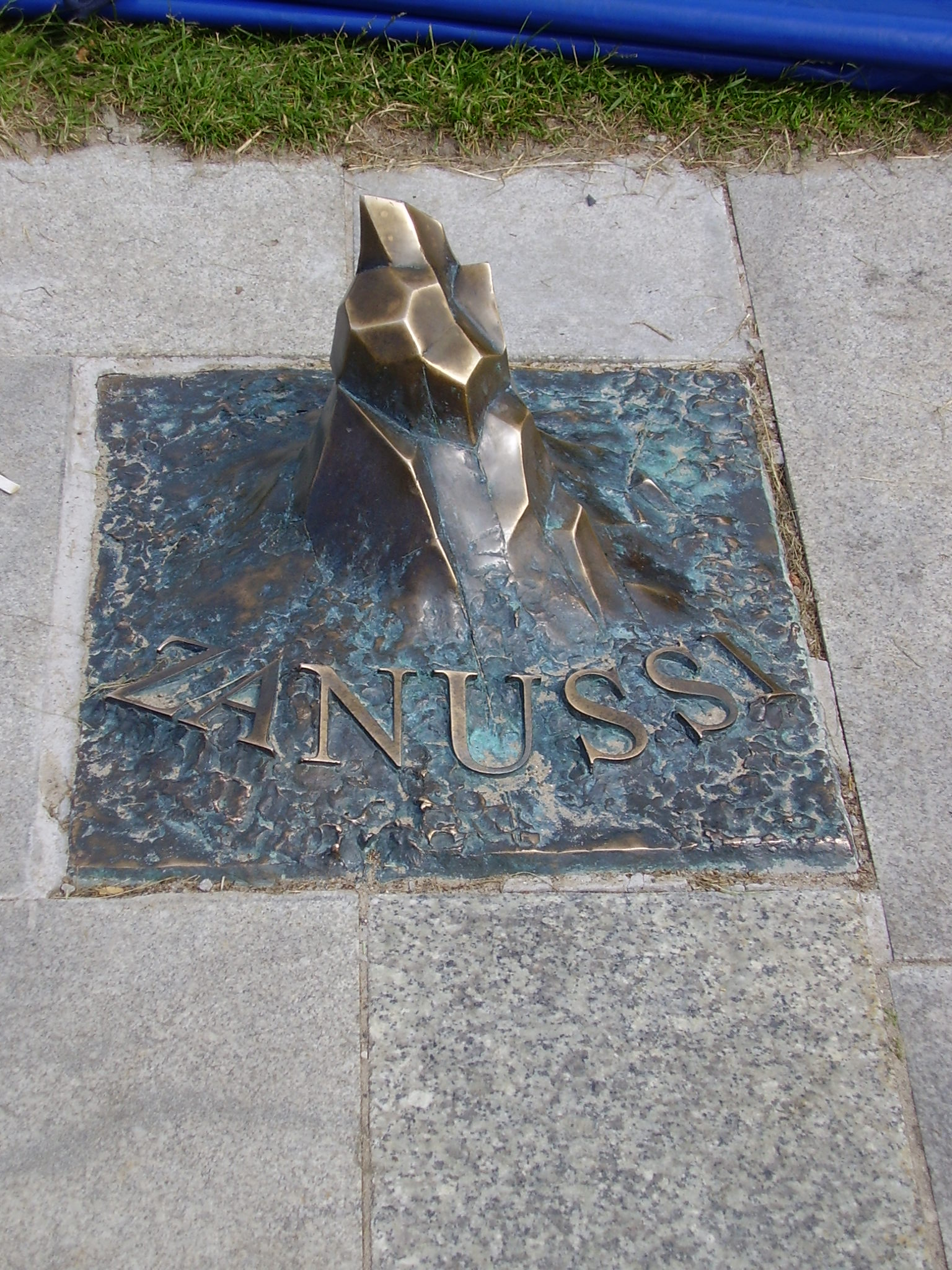 Promenada Gwiazd in Międzyzdroje (Poland)